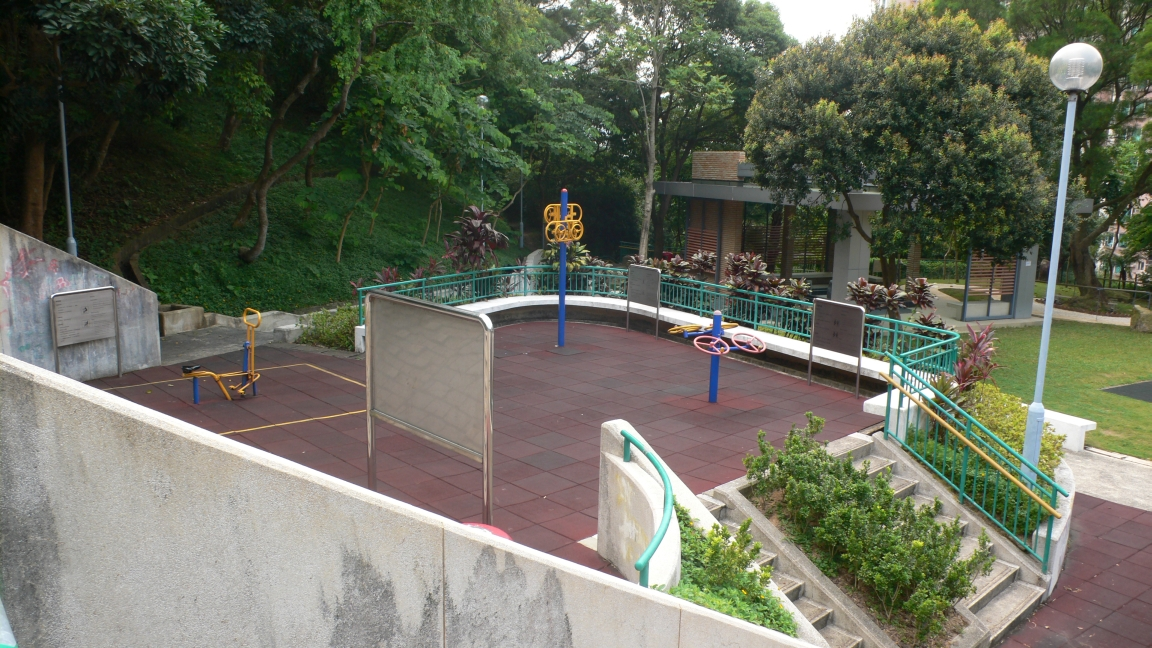 Facilities for Elders in Choi Sai Woo park, Hong Kong